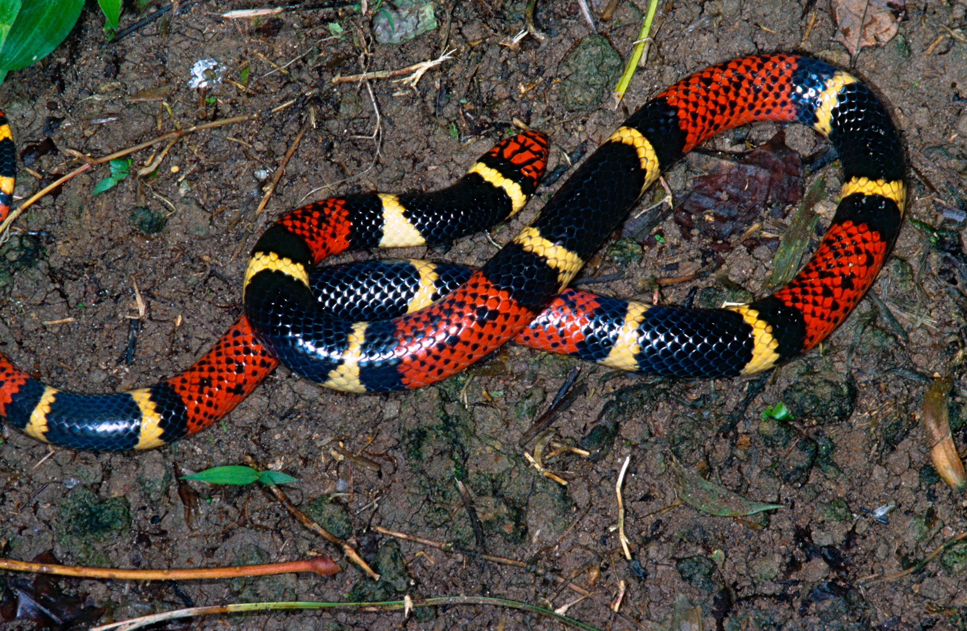 Route de Belizon, Guyane, FRANCE Scanned Slide from 2001